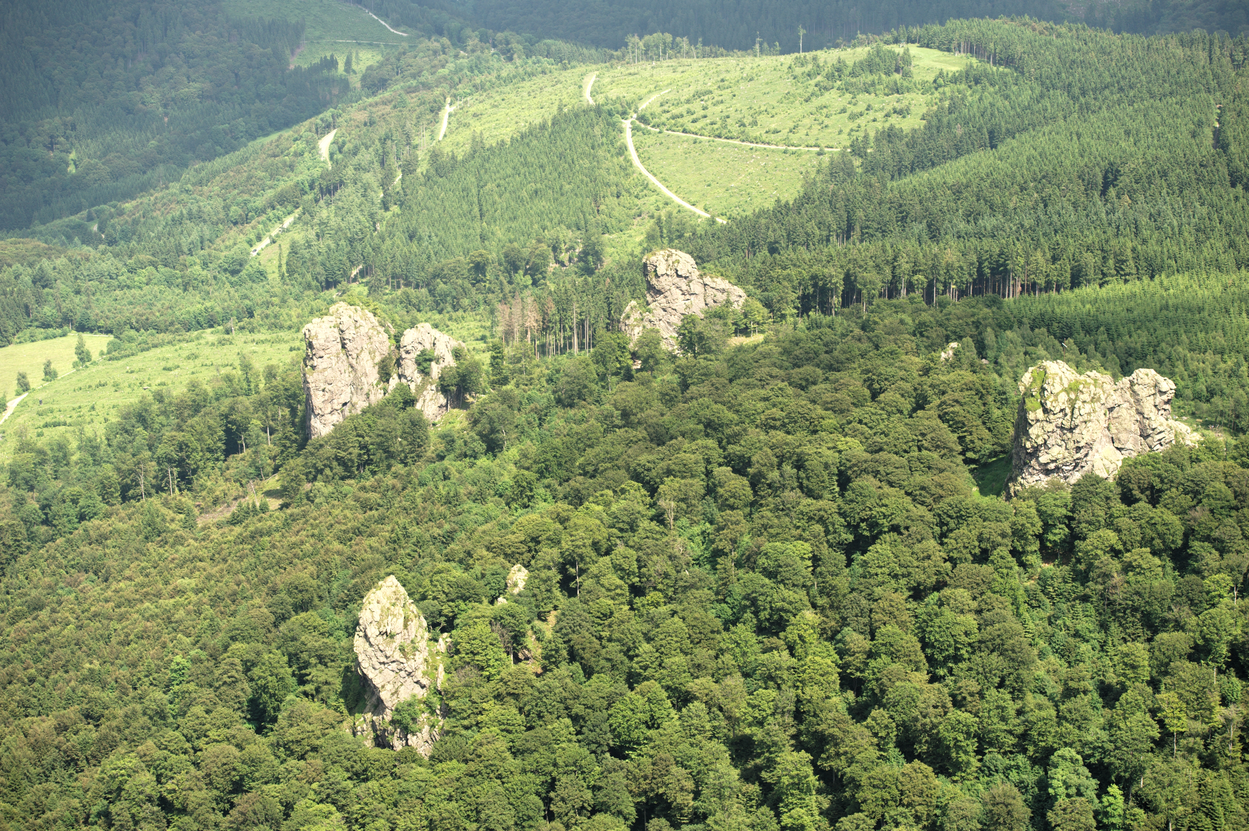 Fotoflug Sauerland-Ost, Bruchhauser Steine The making of this document was supported by the Community-Budget of Wikimedia Germany.